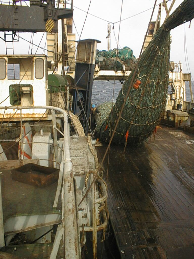 Trawl sampling